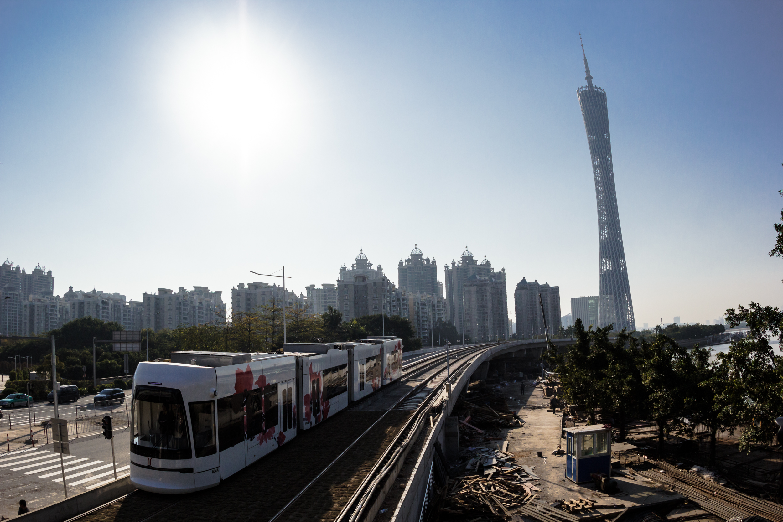 4th tram of THZ1 passes through Whompoa Chung Bridge